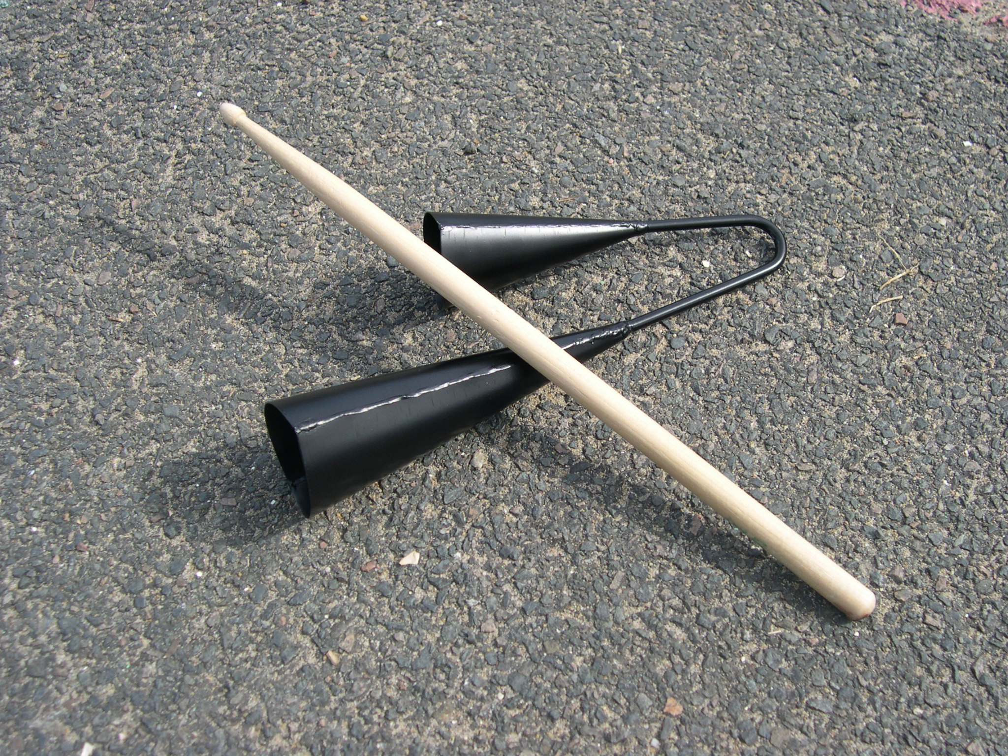 Painted steel agogo with two bells and its wood stick.